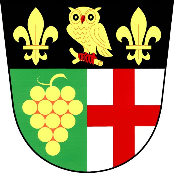 Coat of amrs of Sedlec , District Prague-East, Czech Republic